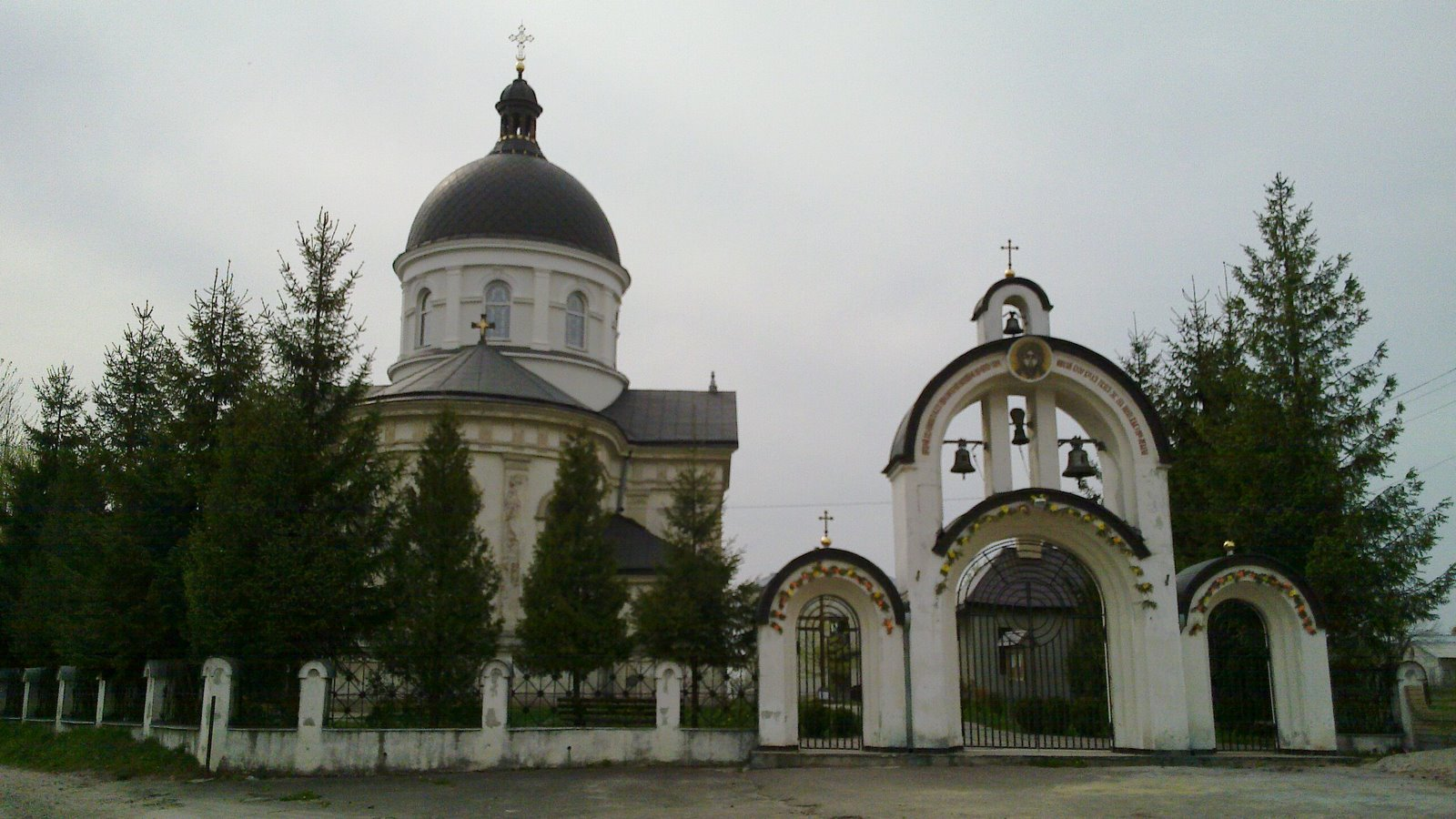 Saint John the Apostle Church in Sukhovolia, Horodok Raion, Lviv Oblast, Ukraine (1912, architect Vasyl Nahirnyi)